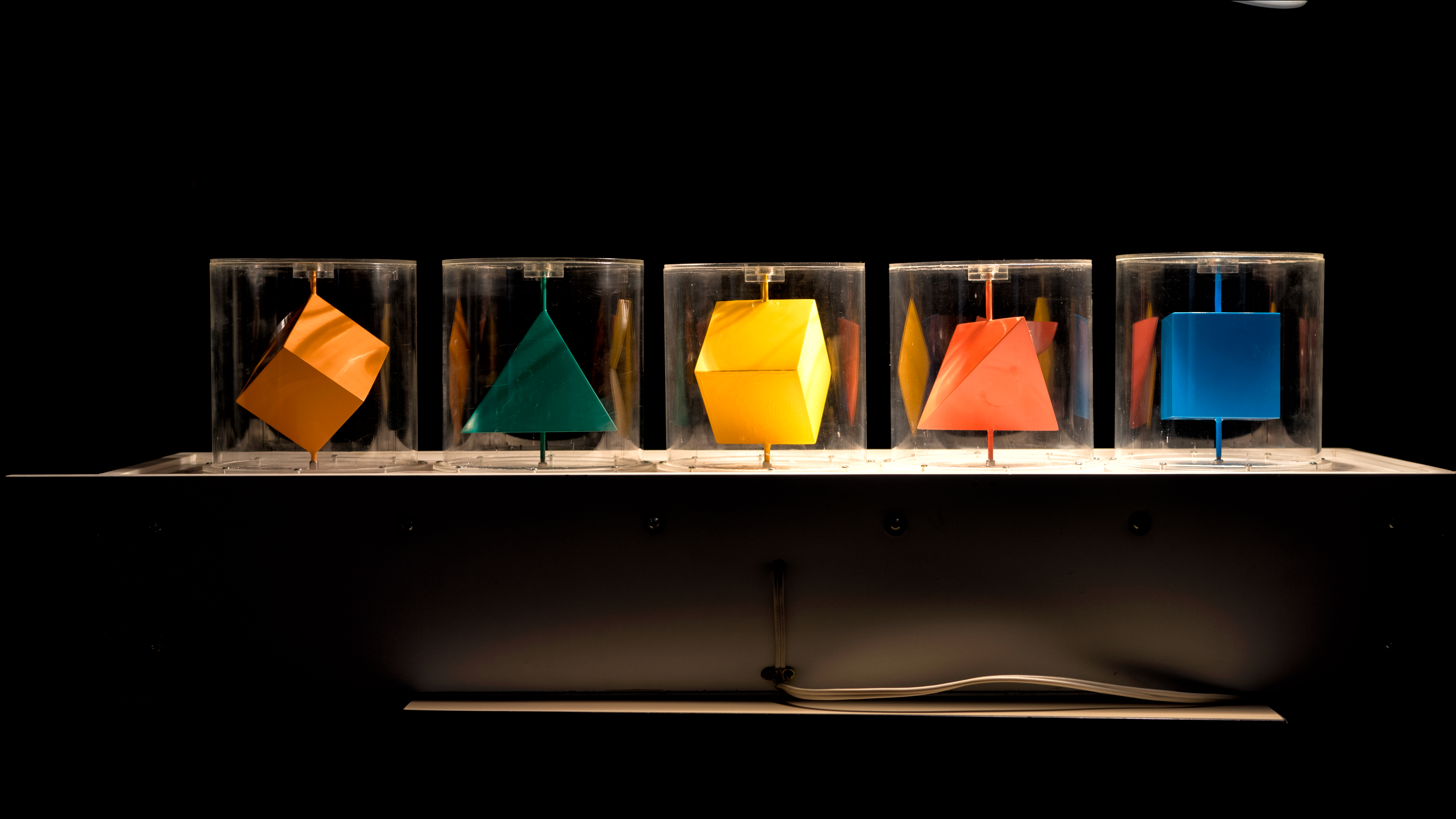 Object that intends to illustrate the revolution of polyhedrons by a single axis, this piece is part of the collection of Matemateca IME-USP Matemateca IME-USP